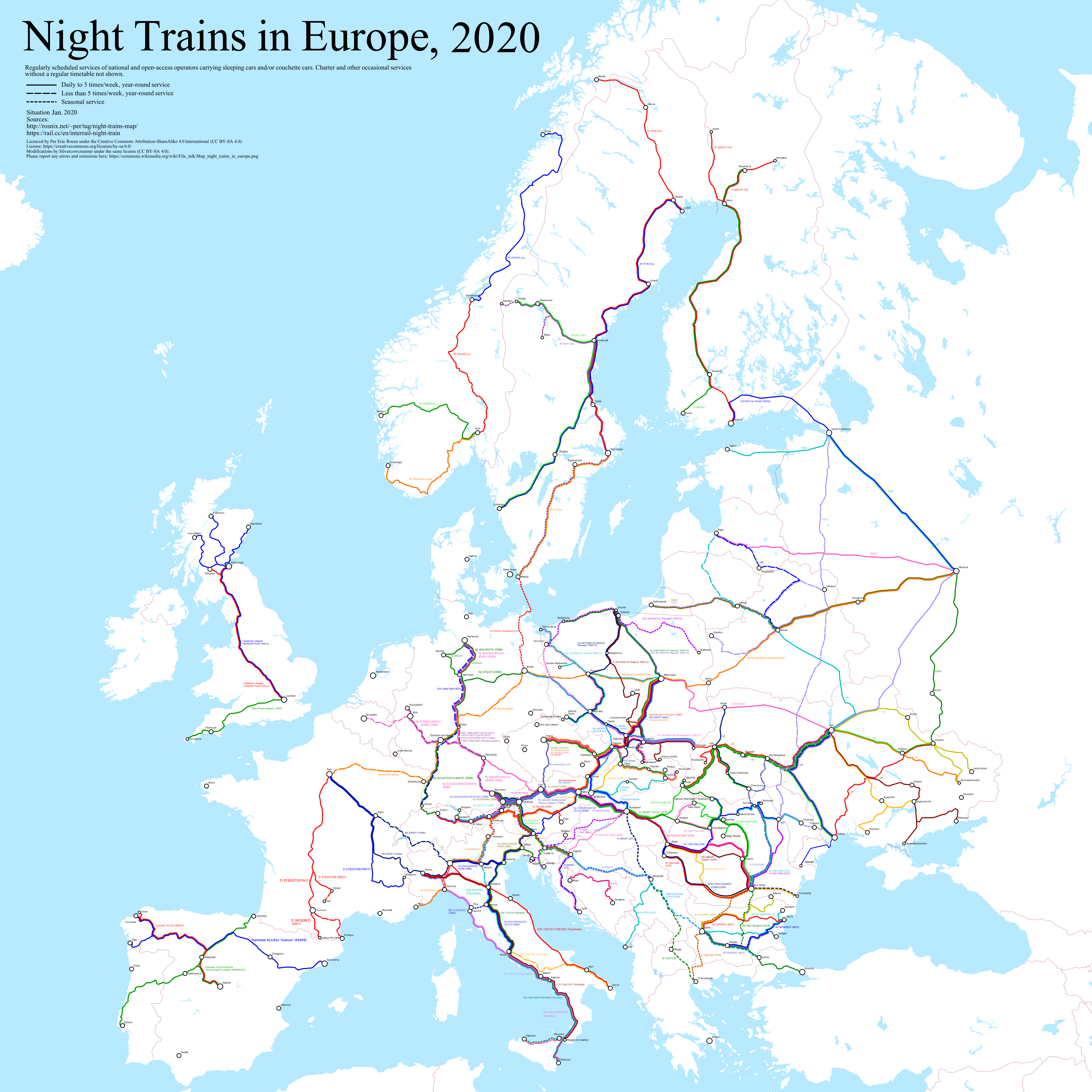 Map of night trains in Europe with sleeping and/or couchette cars.